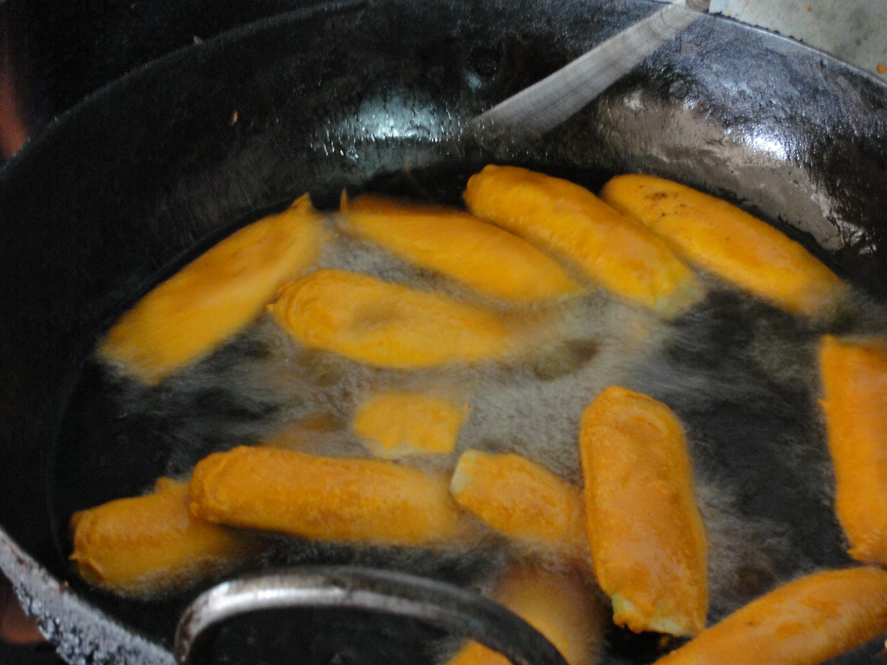 A art of Bajji Making. Bajji is one of the cuisine of the Tamils.